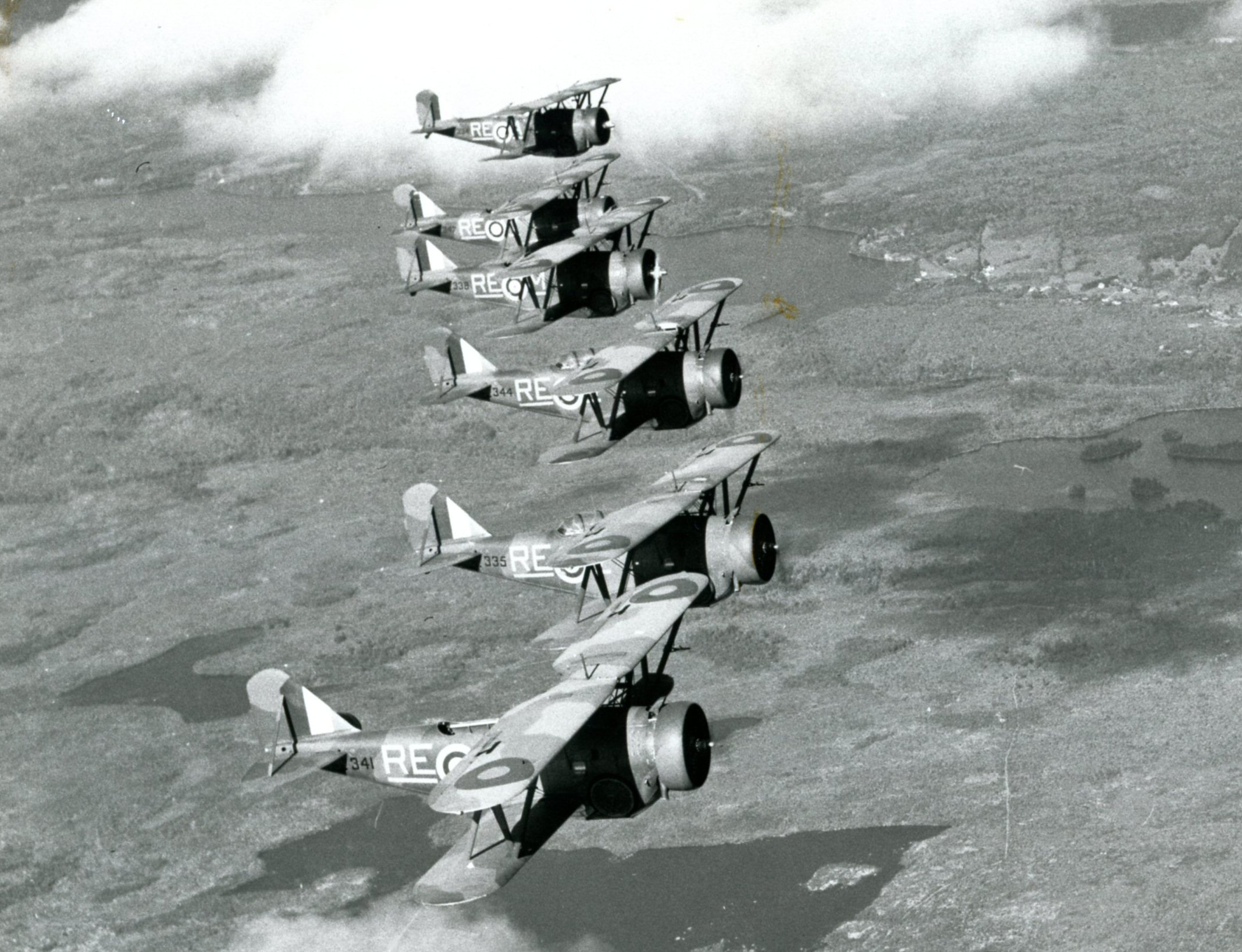 Grumman Gobblins 118 Sqn RCAF Dartmouth 1941